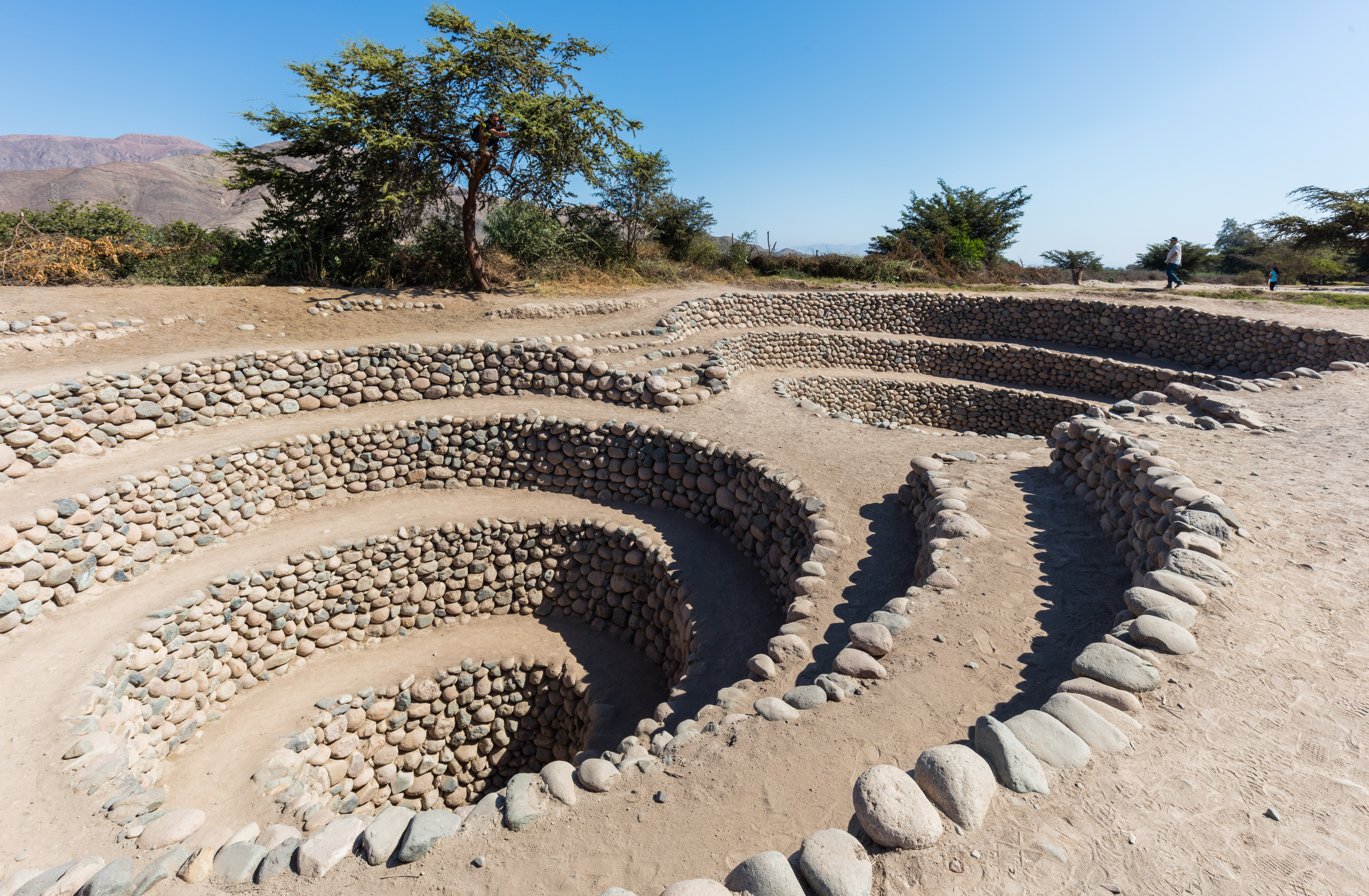 Cantalloc subterranean aqueducts, Nazca, Peru